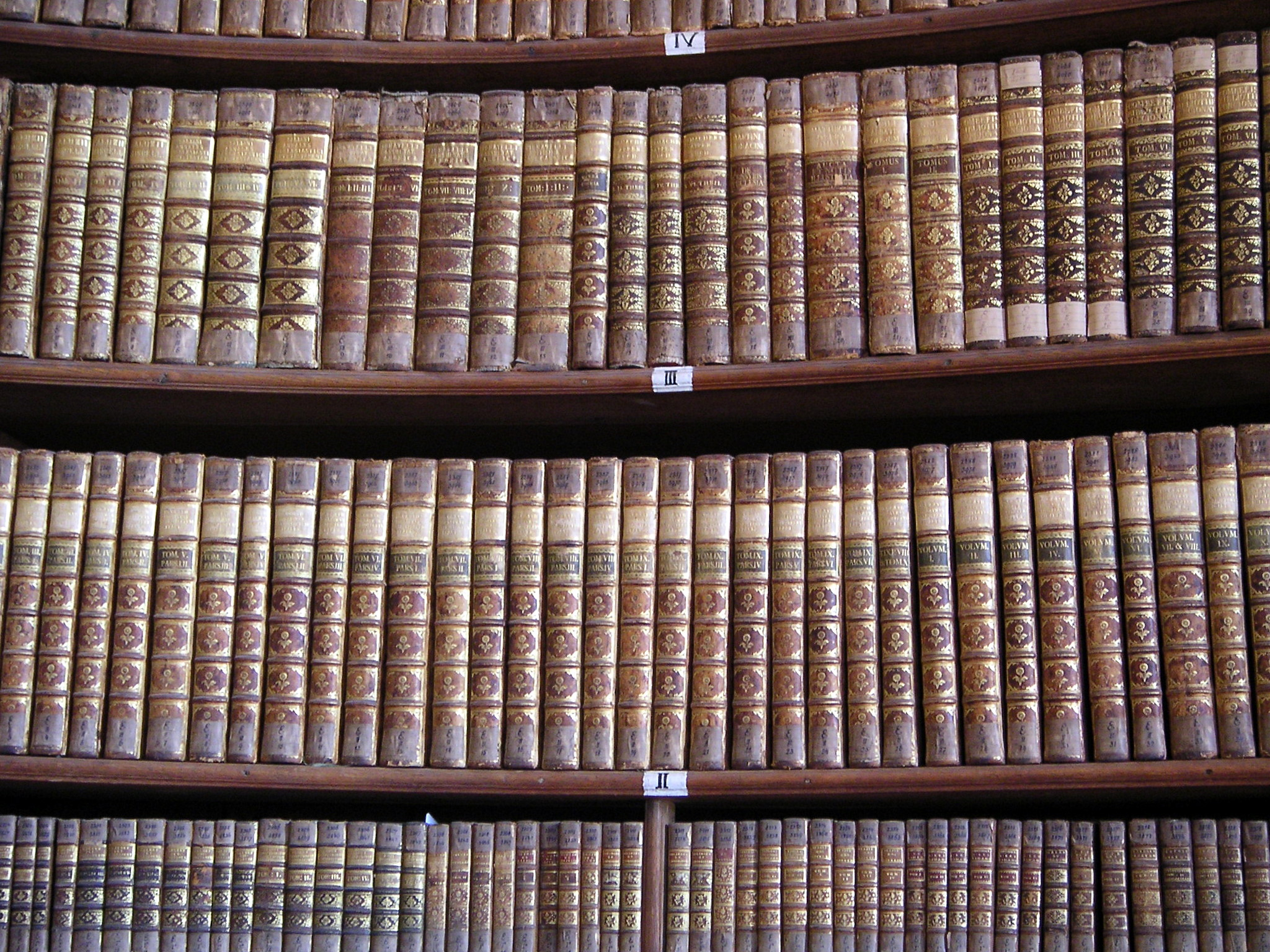 The Archbishopric Library in Eger, Hungary